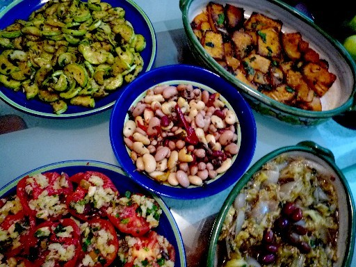 Vegetable dishes from Malta